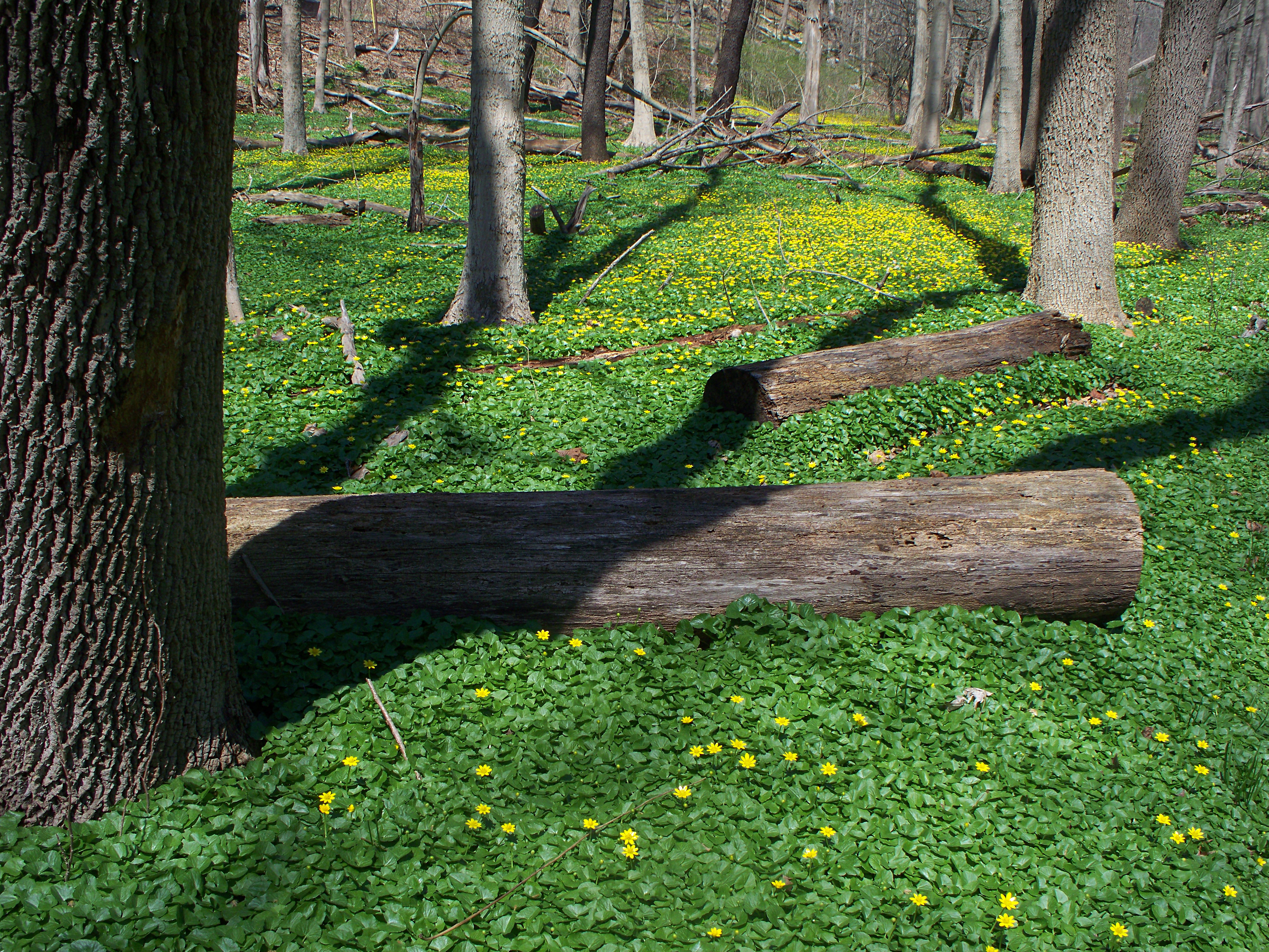 Lesser Celandine (Ranunculus ficaria) blooming in the Squaw Run valley, Fox Chapel, Pennsylvania